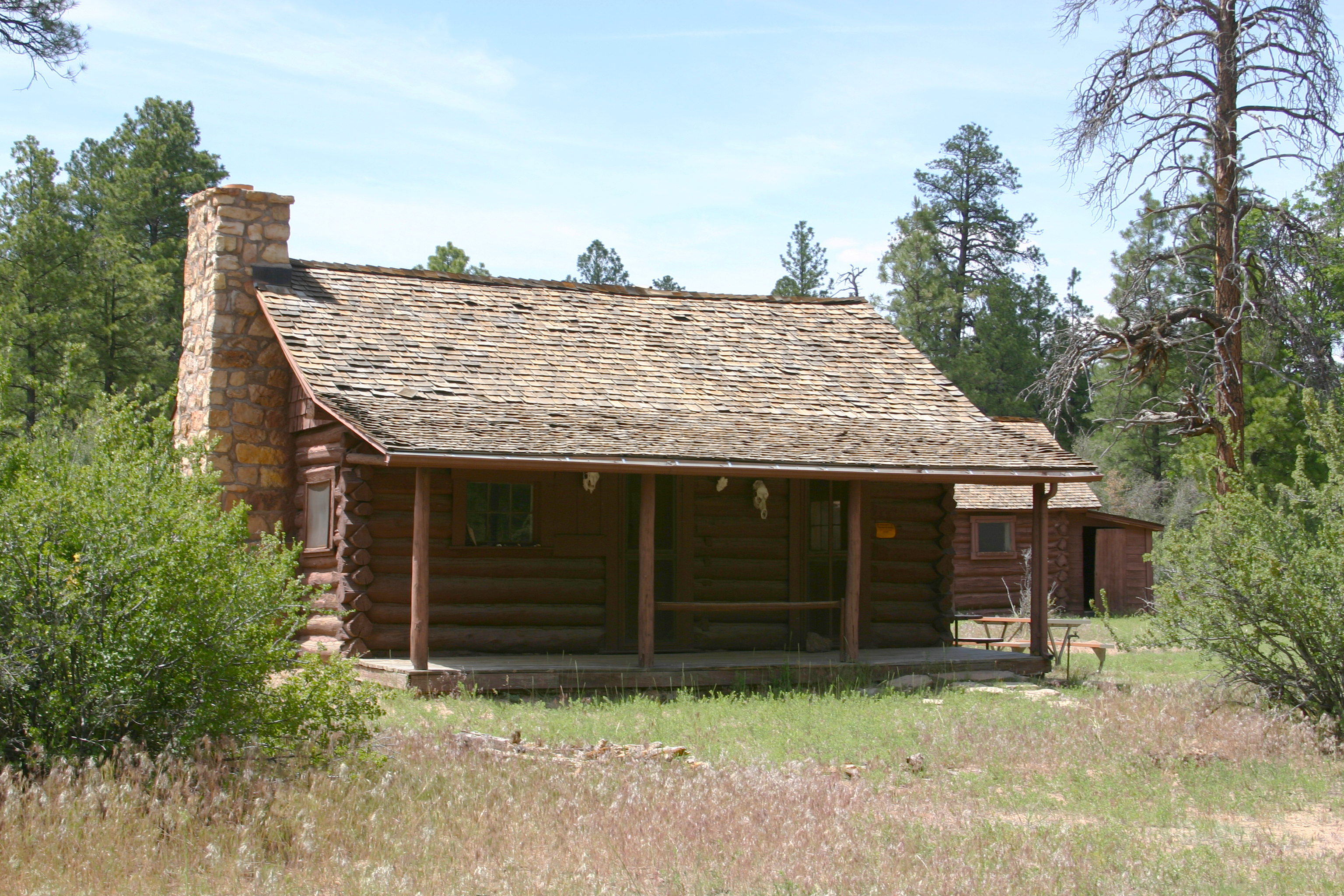 The Hull Cabin in Kaibab National Forest, Arizona, United States